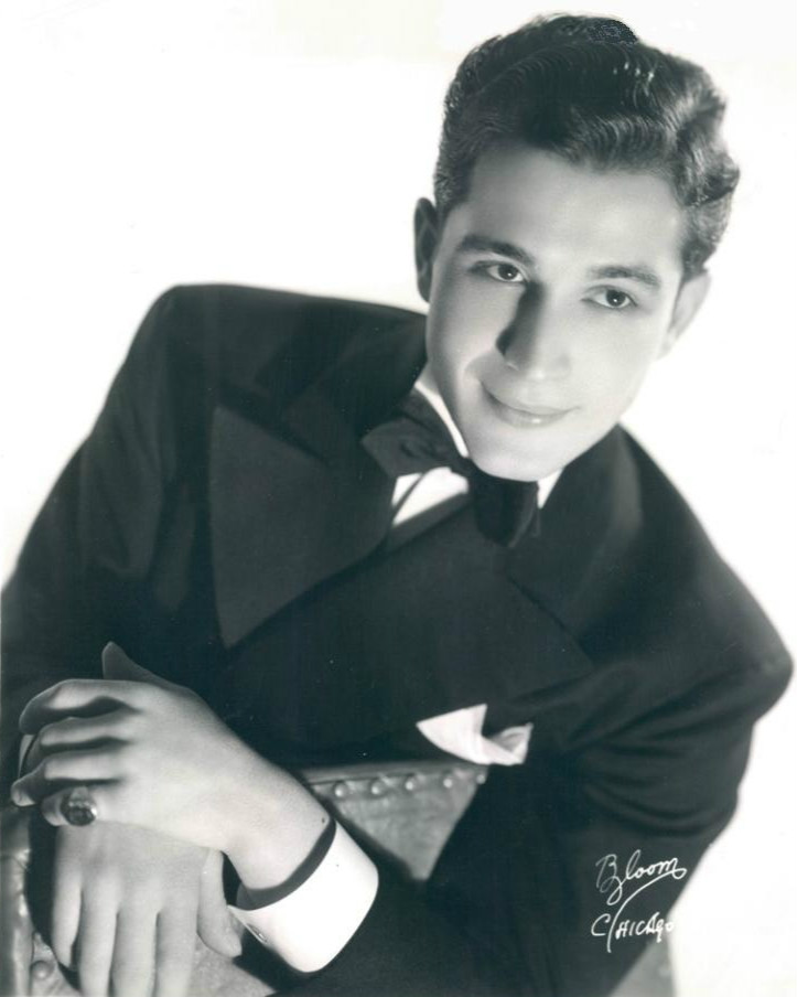 Promotional photo of Perry Como when he was with the Ted Weems Orchestra.